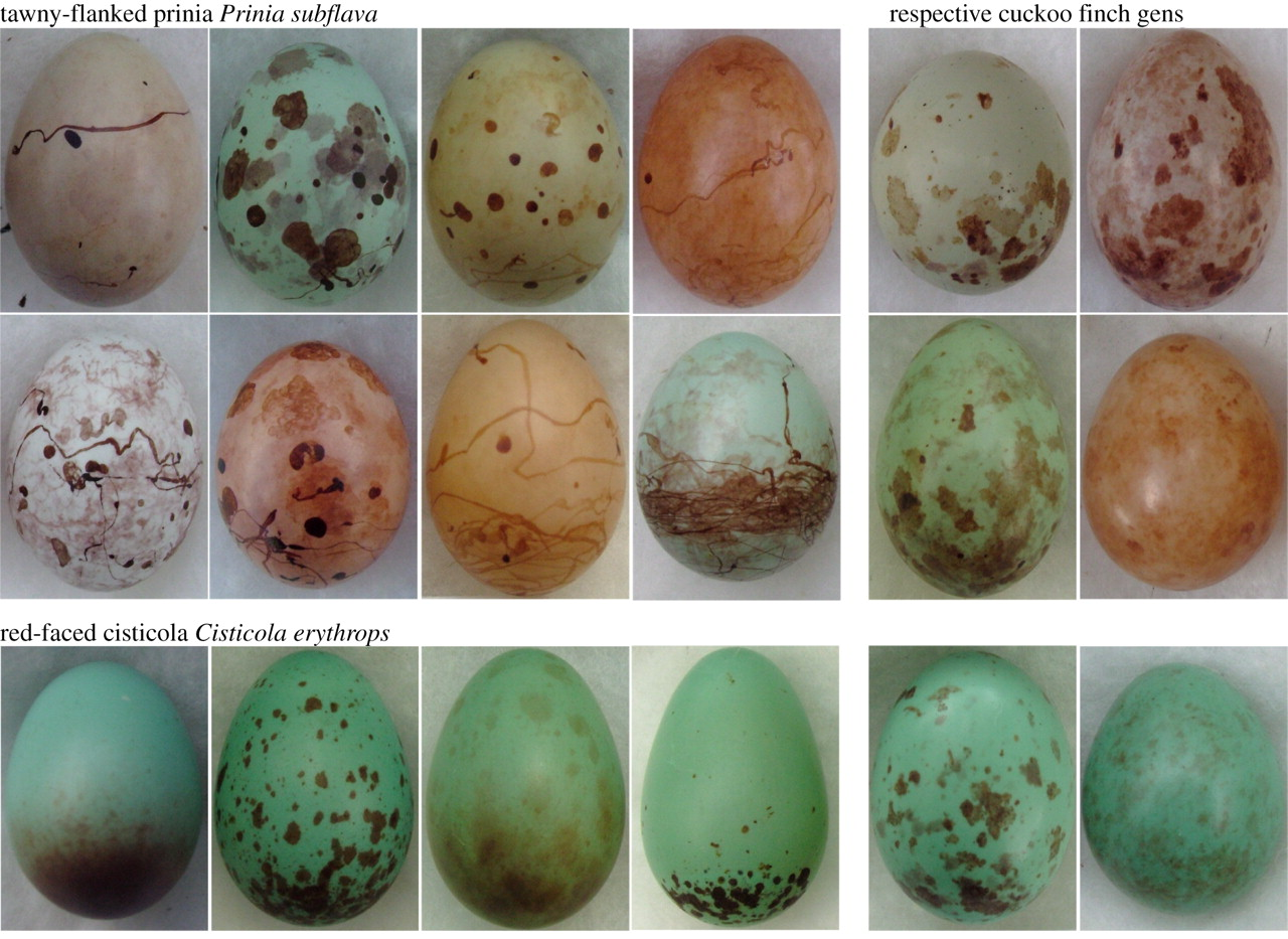 A comparison of cuckoo finch (Anomalospiza imberbis) eggs and their hosts' eggs. Representative host (left) and parasitic (right) eggs showing the range of polymorphism among females. Each egg came from a different clutch. (Note: not to scale.)